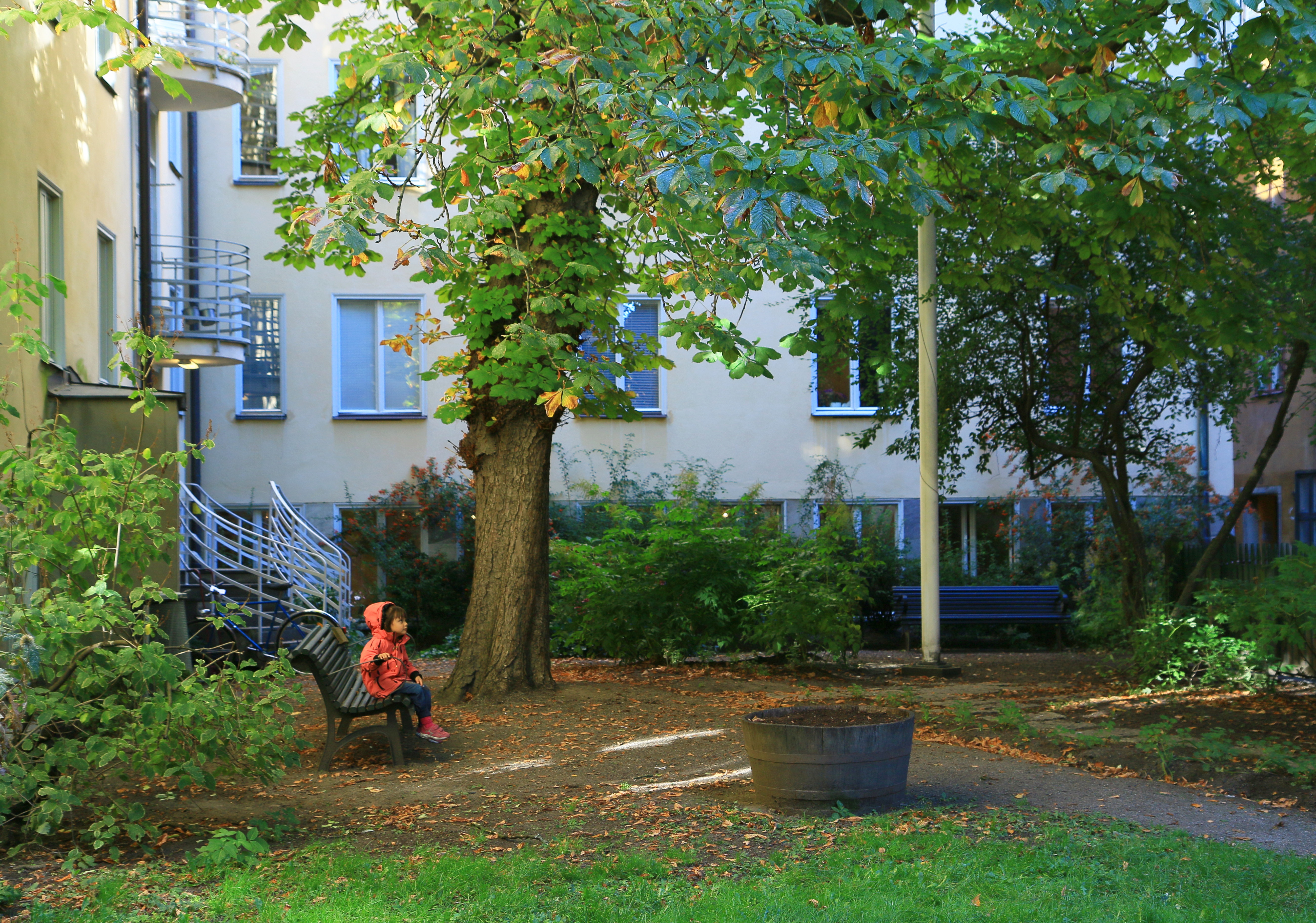 Green city environment.